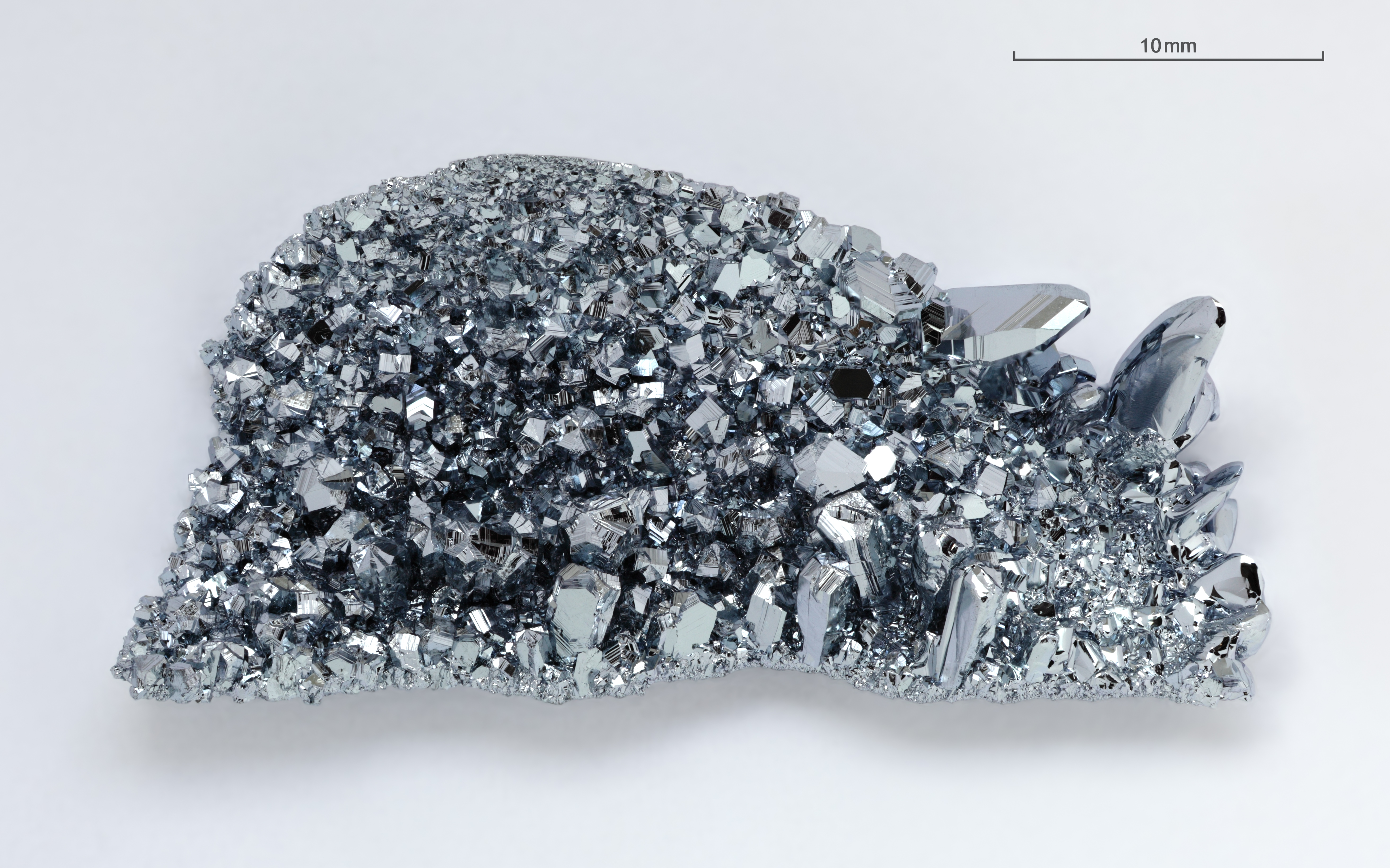 Osmium Os, crystals, purity ≥ 99.99 %, 20 g. Produced by chemical transport reaction in chlorine gas. Collection M.R.